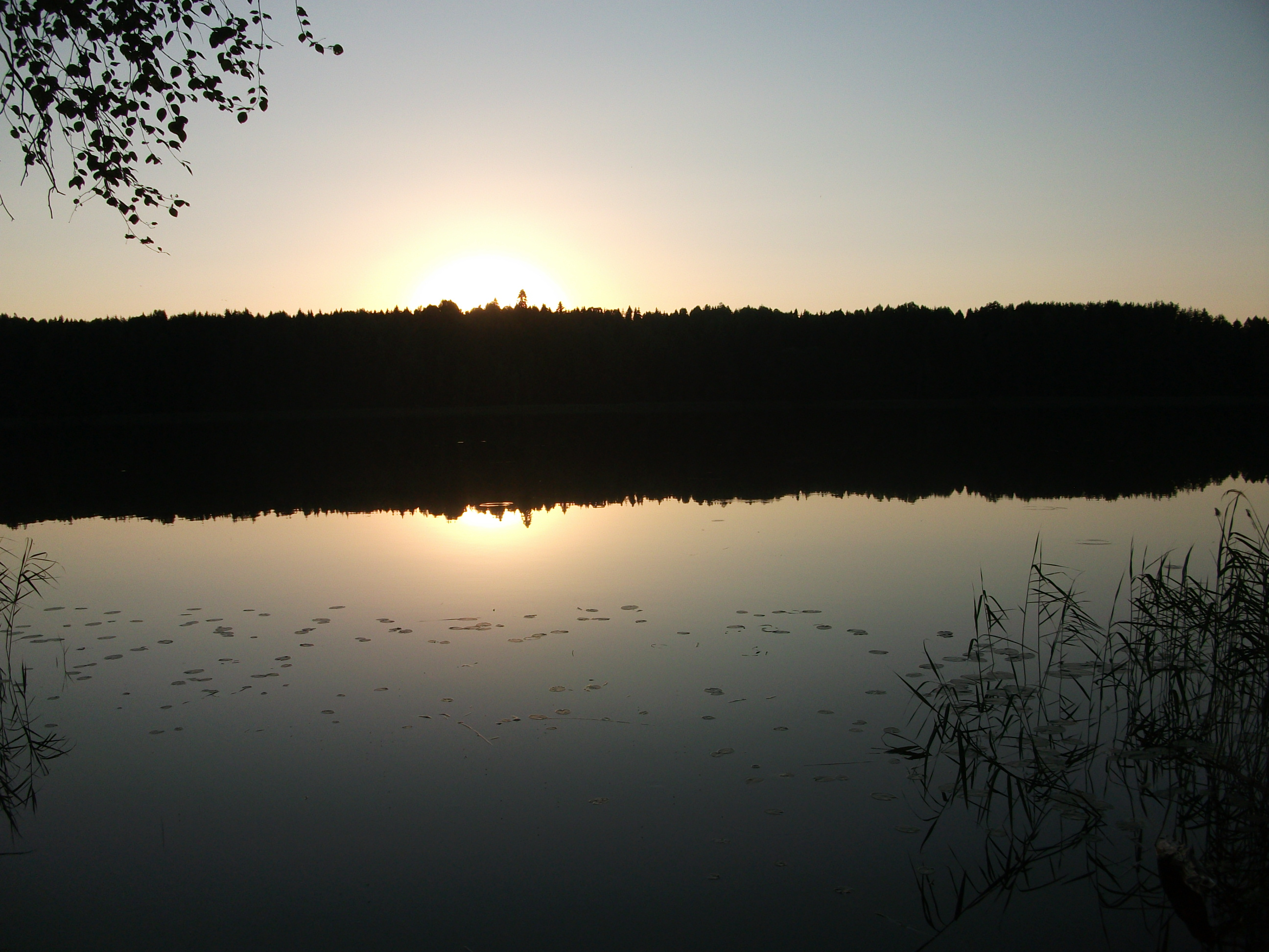 Vechalle Lake, Ušačy District, Belarus